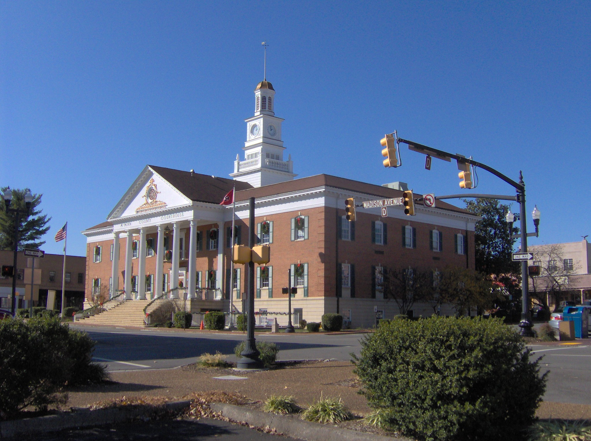 McMinn County Courthouse in Athens, Tennessee, located in the Southeastern United States. This courthouse was built in 1966.